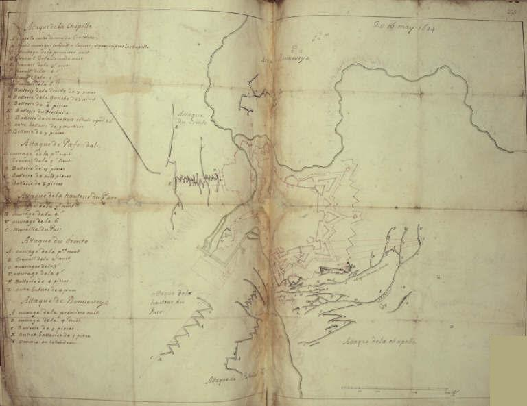 Military plan of the siege of Luxembourg, 16 May 1684